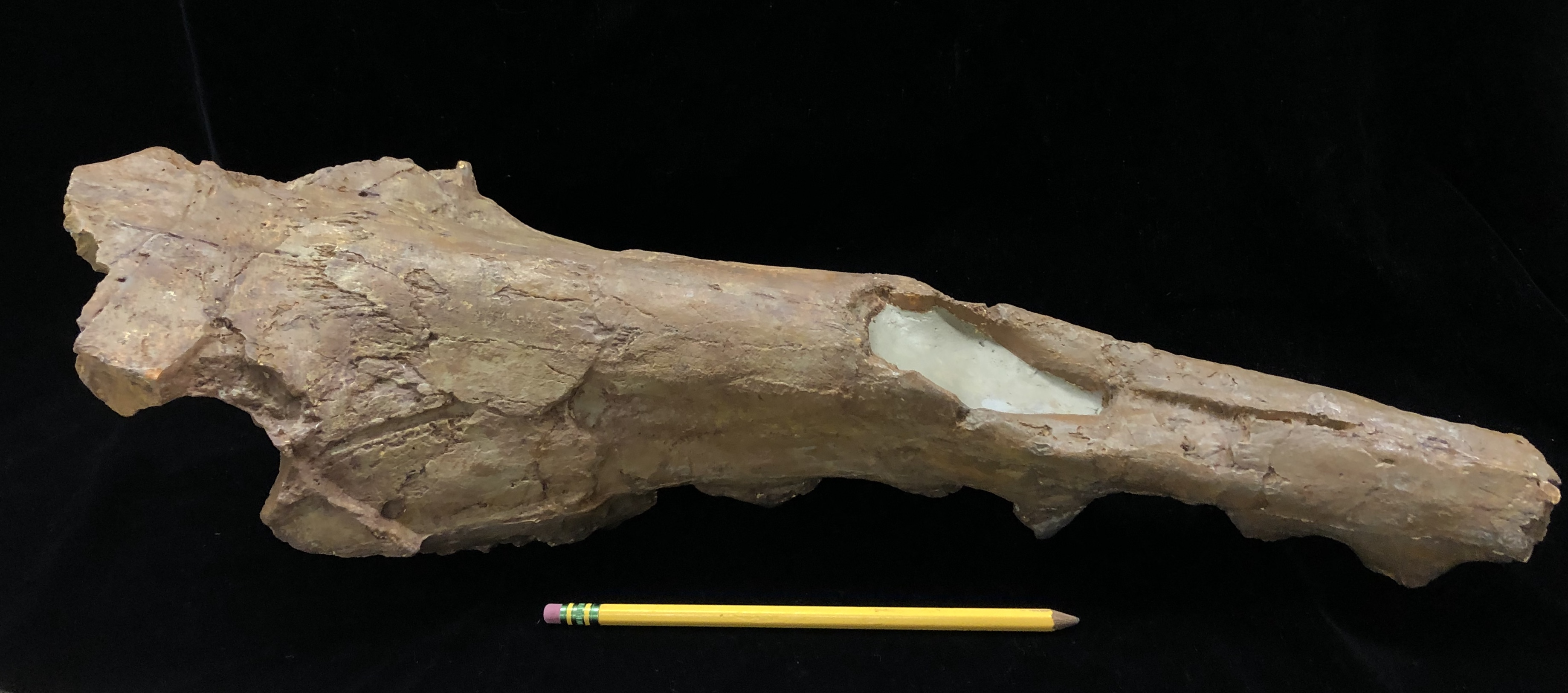 Kharodacetus sahnii, plaster replica of original cranium, specimen number IITR-SB 3189